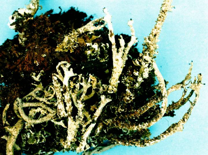 Cladonia squamosa Hoffm., 1796 (photograph of a herbarium specimen) Growing on soil between low bushes at Red Creek Campground in Dolly Sods Wilderness Area of the Monongahela National Forest, West Virginia, USA; collected and identified by Elmer G. Worthley (No. L-88, 22 Oct 1983); specimen is now in the Lichen Herbarium of the New York Botanical Garden.